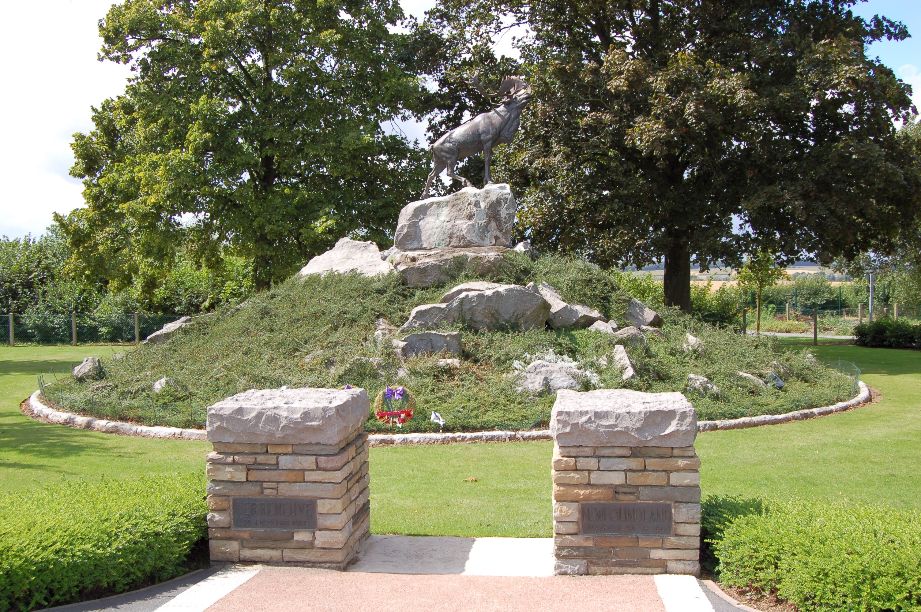 The Newfoundland Masnieres Memorial at Masnières, France - commemorates the actions of the Royal Newfoundland Regiment in the 1917 Battle of Cambrai